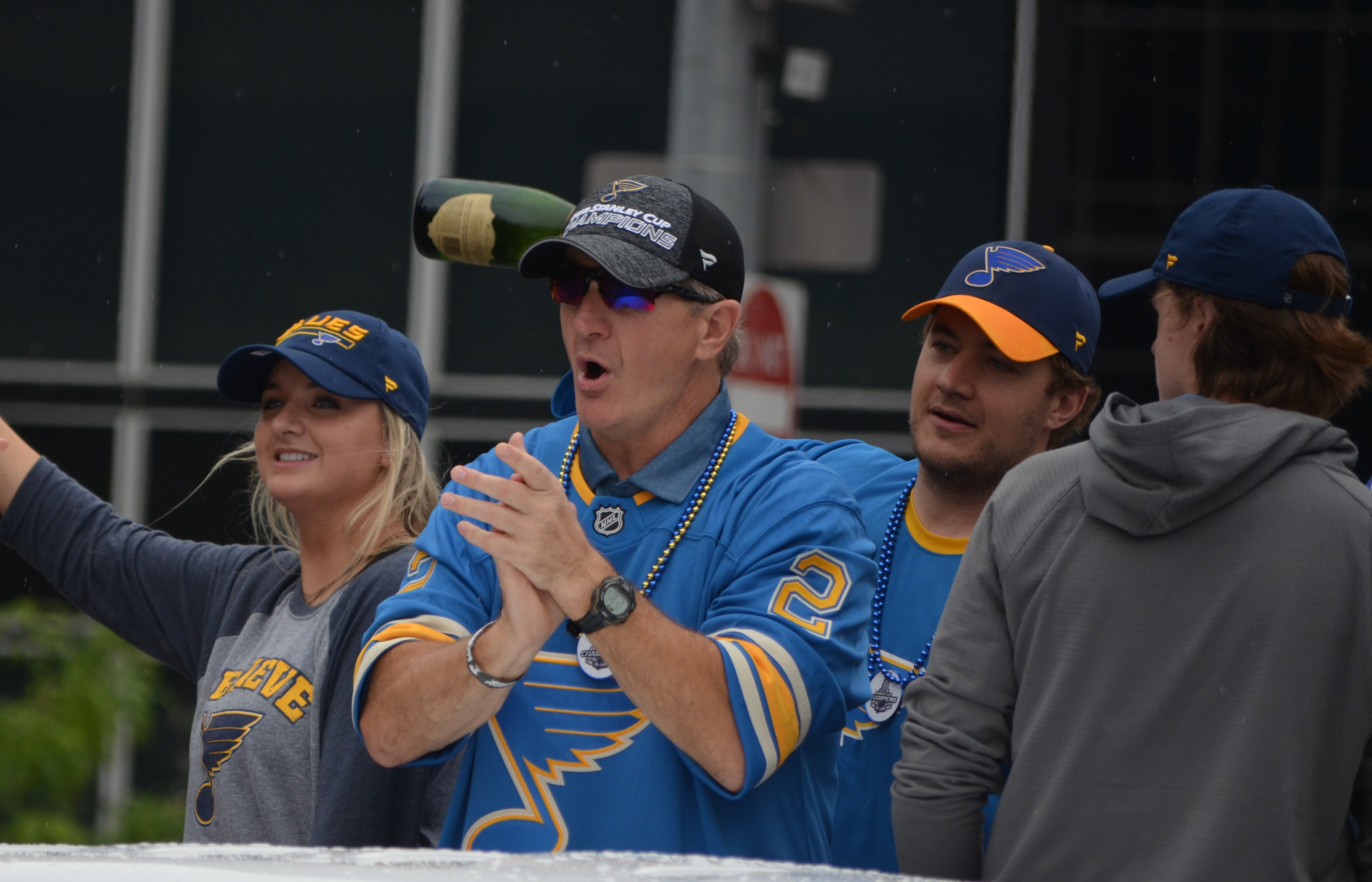 Al MacInnis during the St. Louis Blues Stanley Cup parade